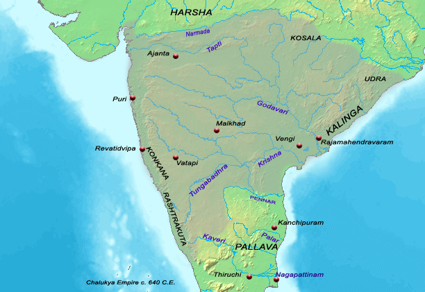 Source of map: (mention : "Disclaimer: With this statement DEMIS BV grants you permission to freely copy the PNG images returned by our server and use them for your own purposes, including web pages. We would appreciate a reference to our server but such a reference is not required, nor do we take responsibility for the accuracy or quality of the maps". at Modified by myself using Adobe Photoshop 画像:Chalukya territories lg.png